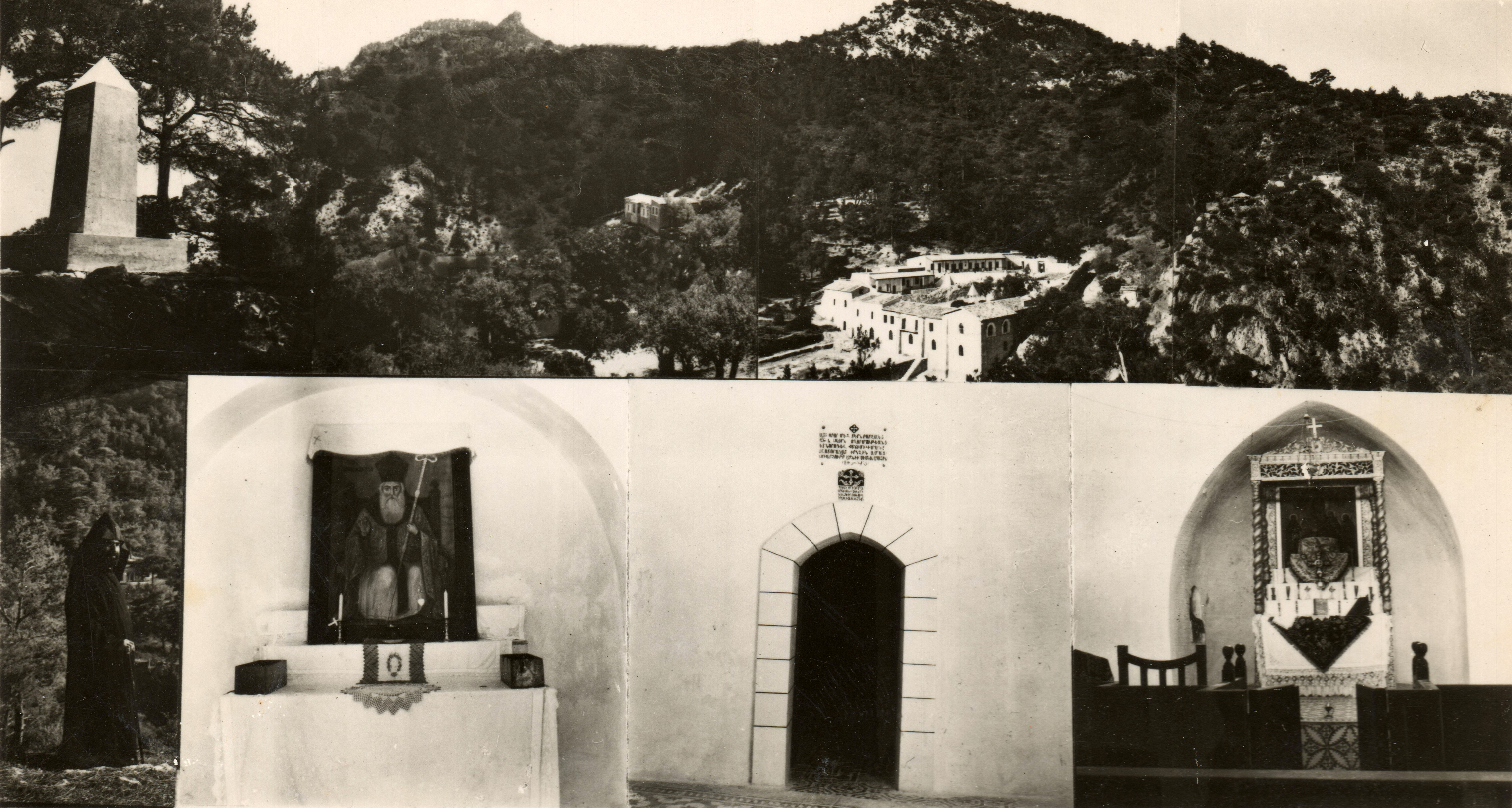 Multiple views of Magaravank's interior and exterior